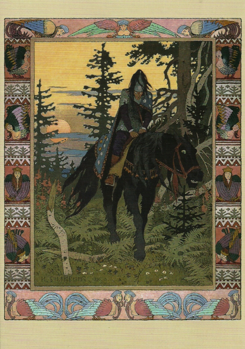 The Black Horseman. Illustration for the tale Vasilisa the Beautiful.